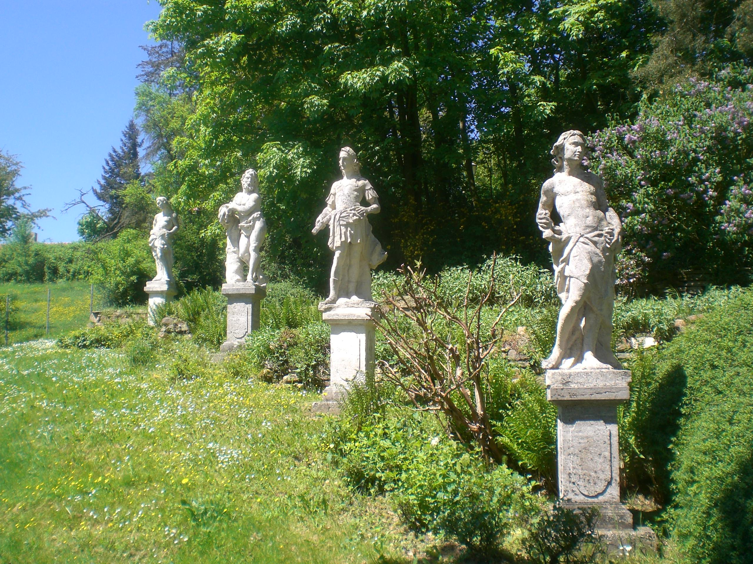 statues near the historical Hofgut Retters in Kelkheim (Taunus)